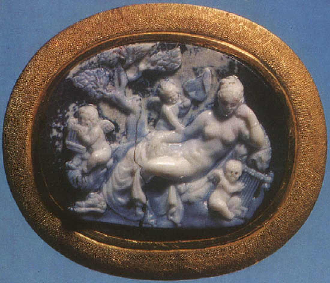 Hermaphroditus surrounded by cupids. Workshop of Sostratos (Alexandria) 1st century BC. Double-layer onyx cameo. 2.1 x 2.6 cm. Acquired from the Duke of Orleans collection, Paris. 1787